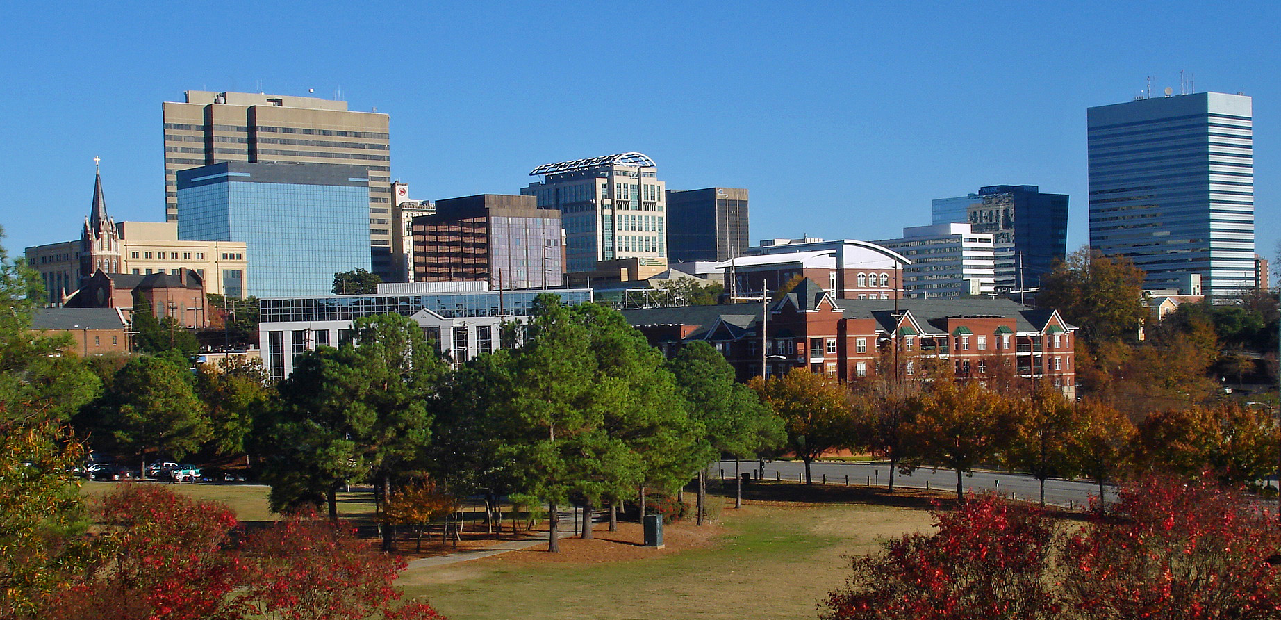 skyline of downtown Columbia, SC, USA from Arsenal Hill neighborhood